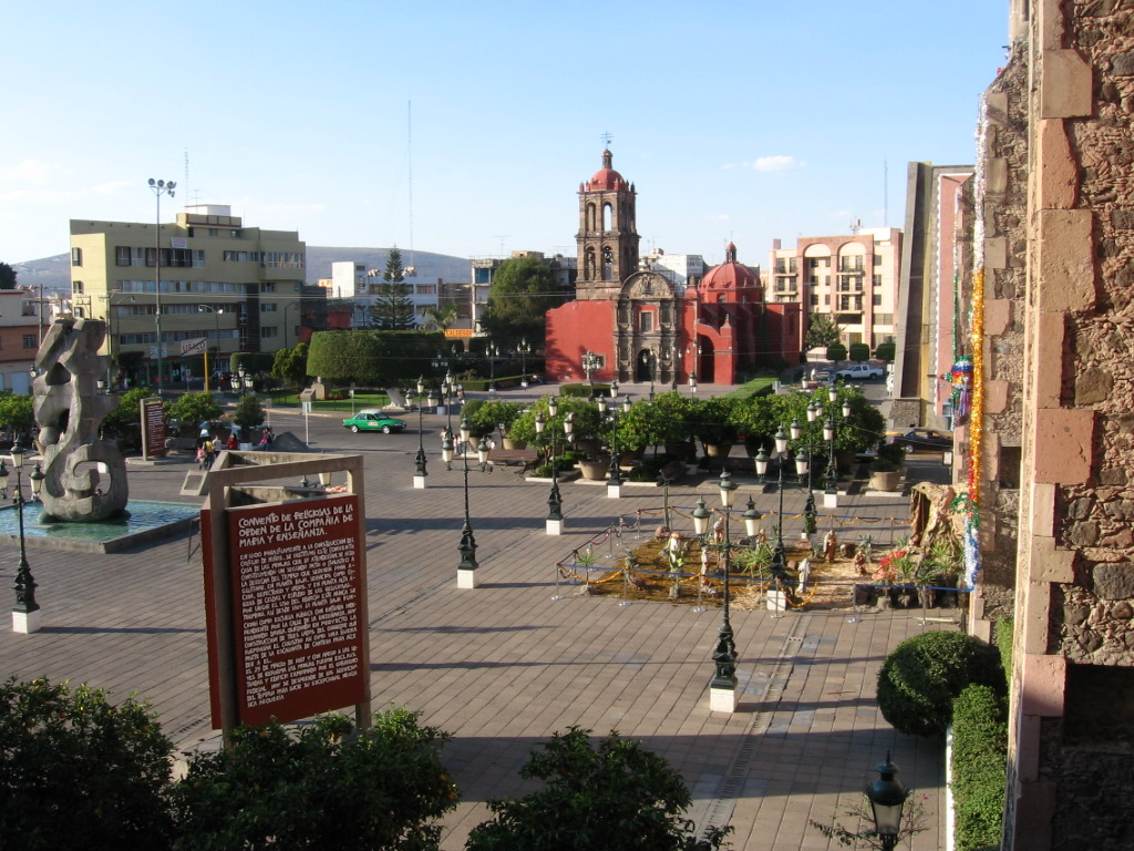 Historic Downtown of Irapuato (In this picture you can see the Templo del Hospitalito, and the Arandas mountain in the background) The picture was taken from one of the balconies of the city's Presidencia (Historic City Hall)